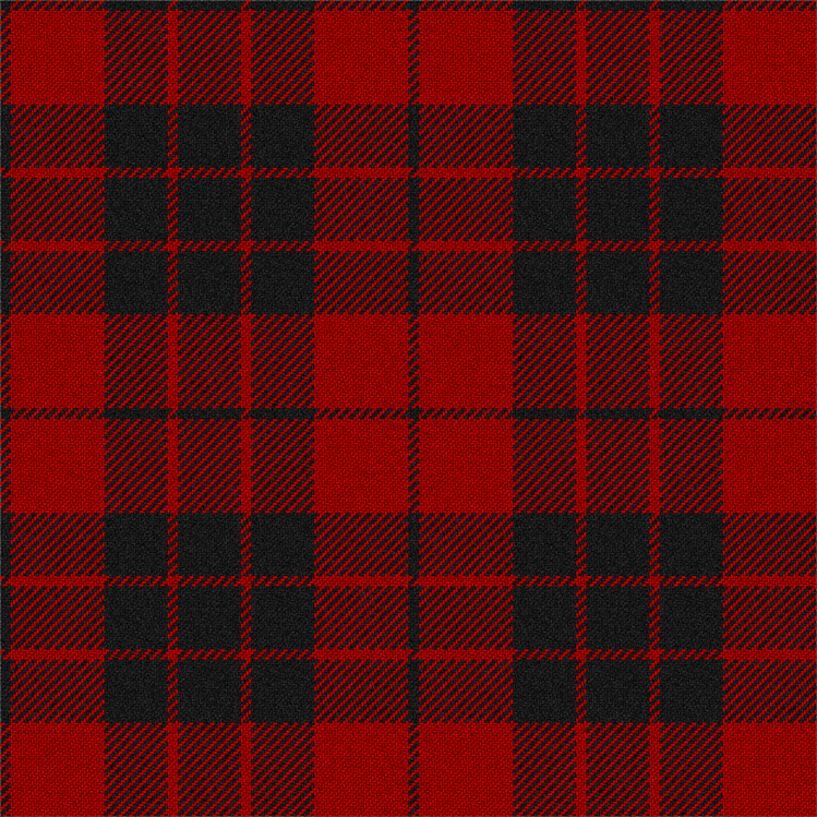 MacLeod of Raasay tartan. The tartan is very similar to the Macleod tartan in the Vestiarium Scoticum, and therefore is later than 1829. [1] Thread count used: Black-4, Red-36, Black-24, Red-4, Black-24.